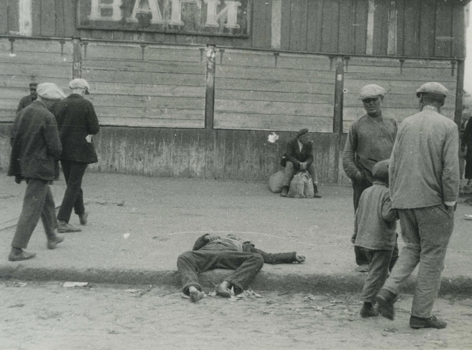 From 1935 publication 'Muss Russland Hungern?' [Must Russia Starve?], published by Wilhelm Braumüller, Wien [Vienna] depicted 1933 Kharkov